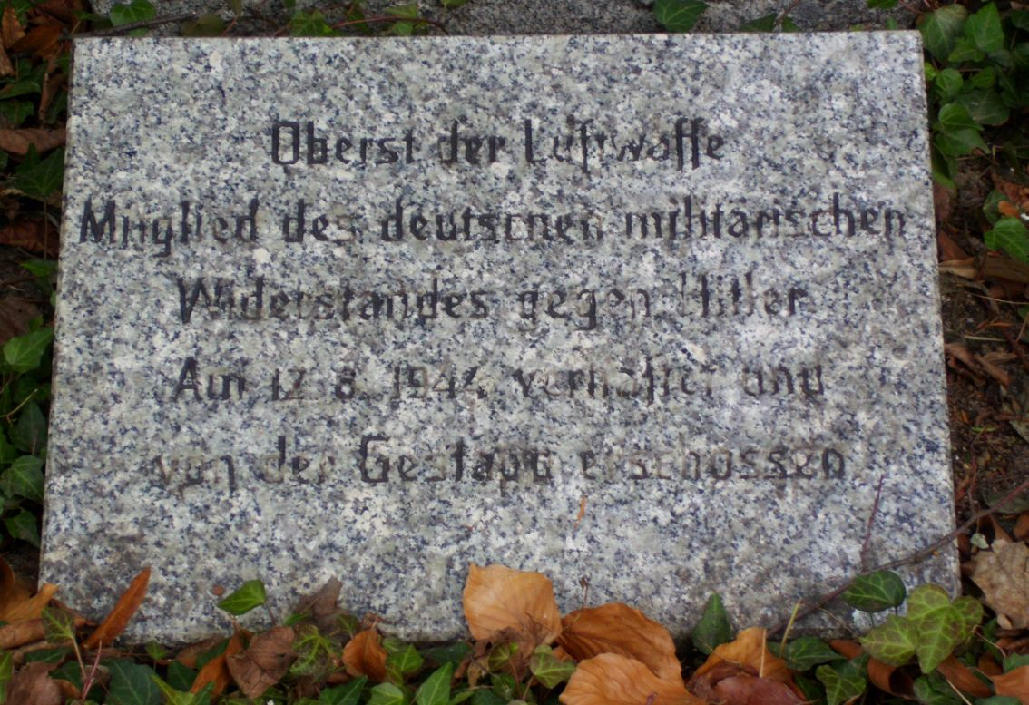 Memorial stone on the grave of Wilhelm Staehle